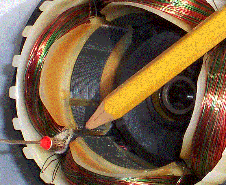 Thermal fuse shown in position for installation in an insulating sleeve between two windings of a small motor